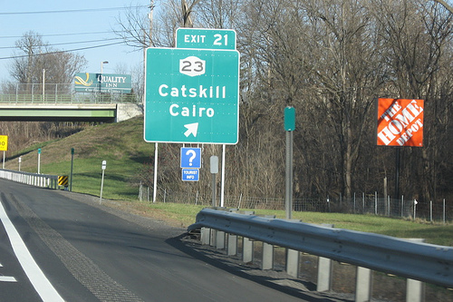 Signage for exit 21 on Interstate 87 (New York State Thruway) northbound.